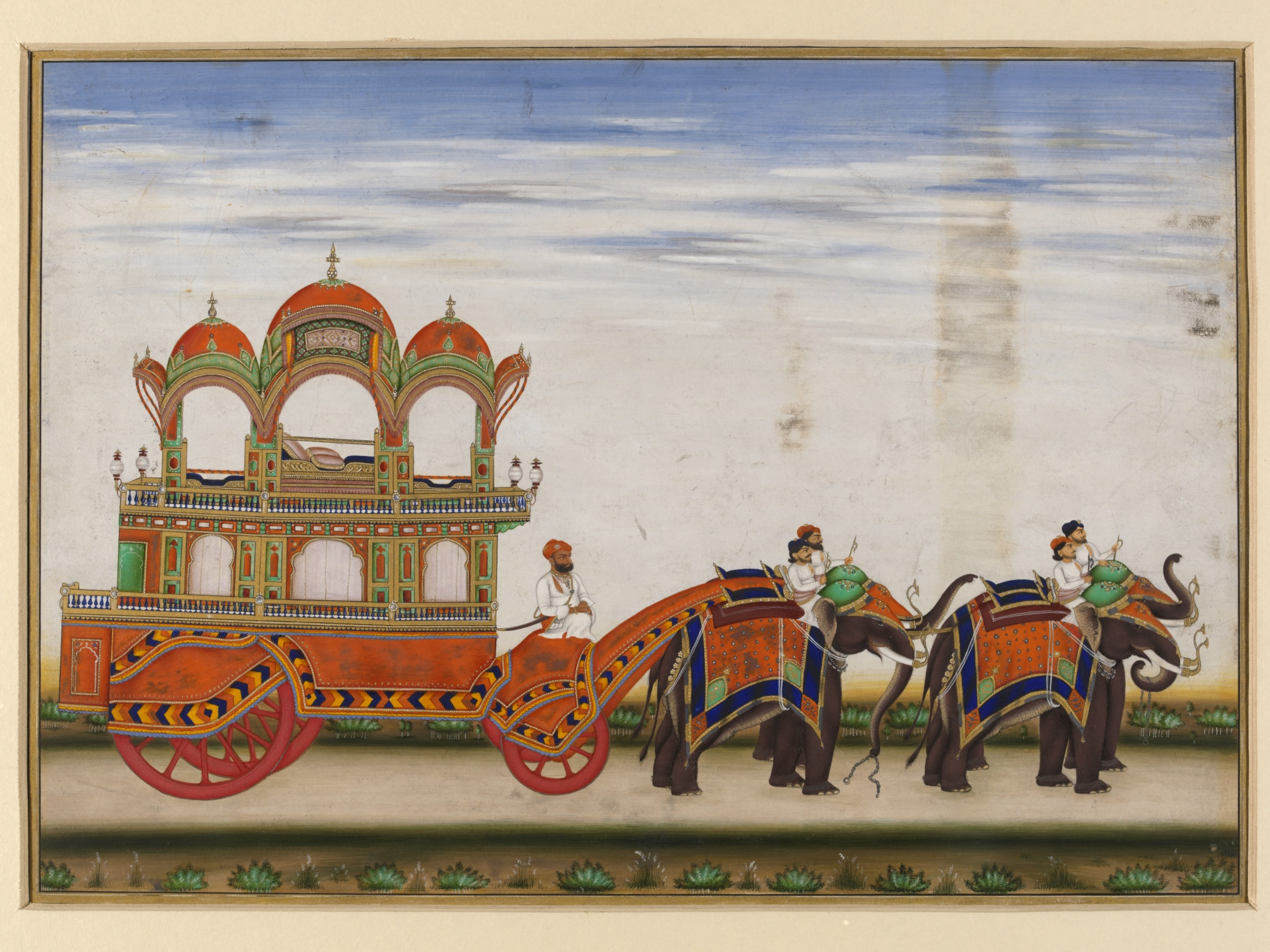 One of six figures from the Mughal emperor's ceremonial procession on the occasion of the Id. Physical description: A two-tiered carriage drawn by four elephants Place of origin: Delhi, India (painted) Date: ca.1840 (painted) Artist/Maker: Khan, Mazhar Ali (Artist) Materials and Techniques: Gouache Dimensions: Length: 27.5 cm, Width: 37.5 cm